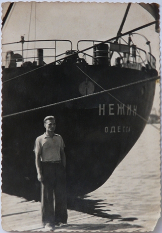 Stoker Nikolay at the stern of his steamer Nezhin. Photo dated by period from May 1956 to tnd of 1957.